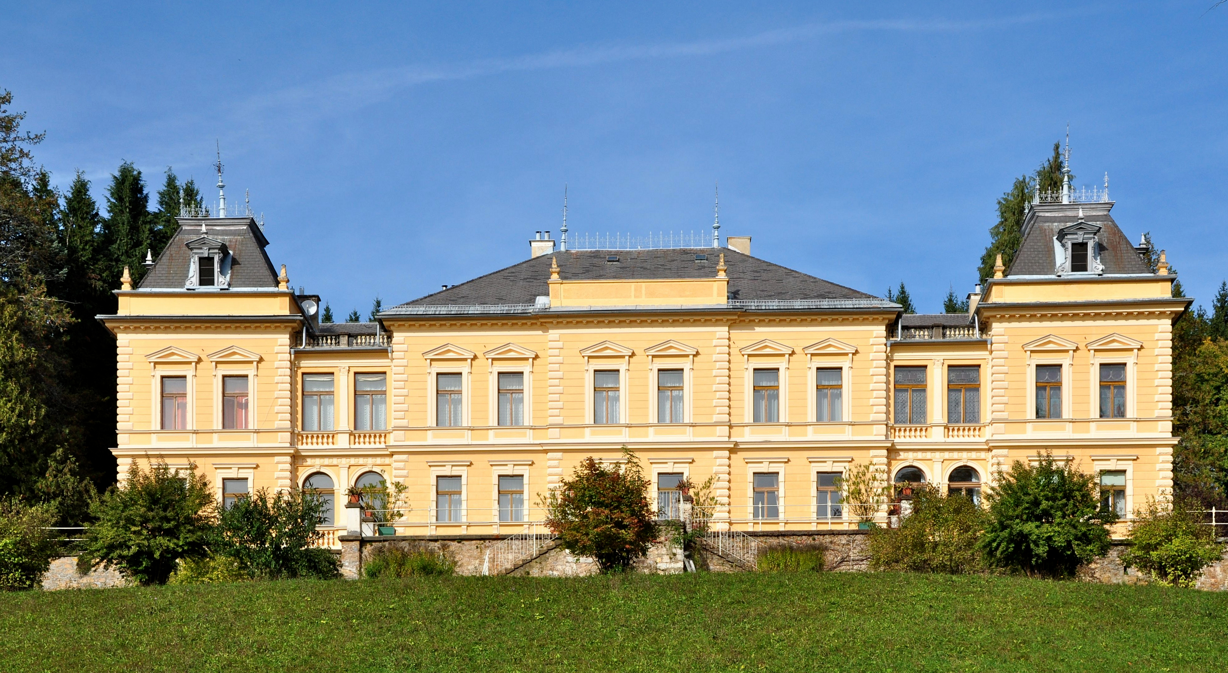 Welsbach Palace at Welsbach #7, municipality Mölbling, district St. Veit an der Glan, Carinthia / Austria / EU